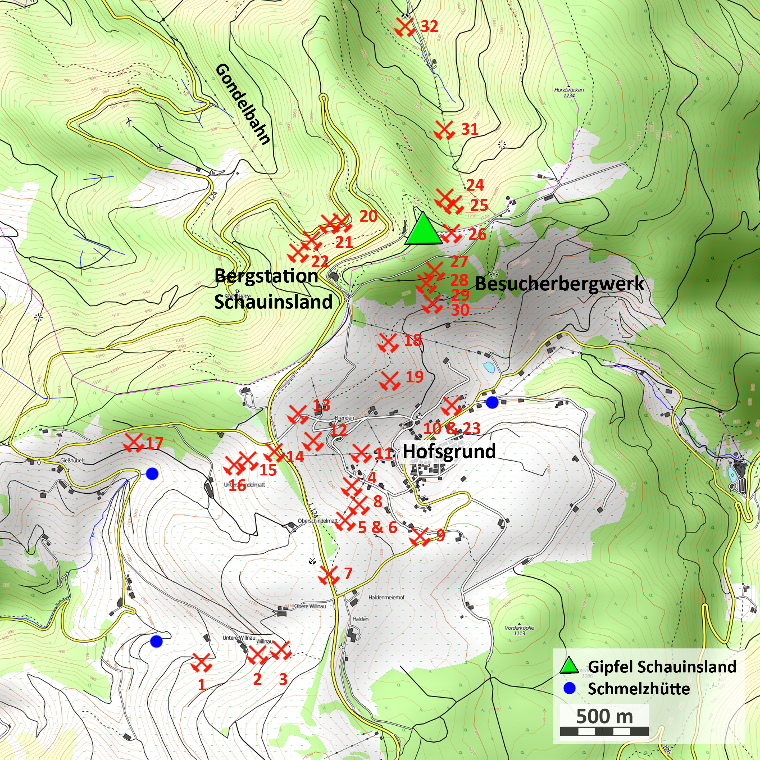 Mining area Schauinsland, east of Freiburg.